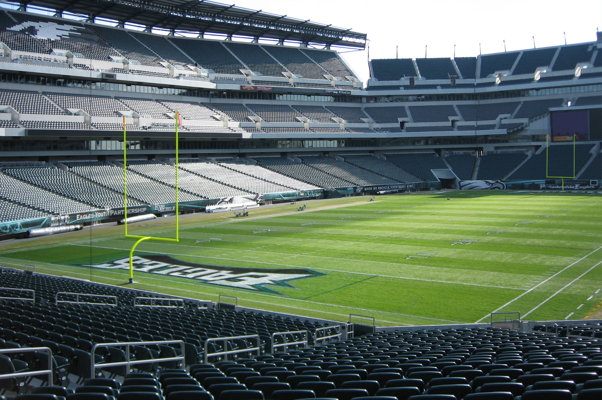 Lincoln Financial Field in Philadelphia, stadium of the Philadelphia Eagles football team